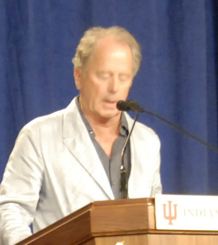 Don Gummer speaking at the opening of the Glick Eye Institute in Indianapolis. He is a world-renowned sculptor as well as the husband of Meryl Streep.